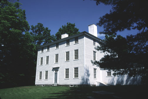 Front of the Pownalborough Courthouse, located along Cedar Grove Road in Dresden, Maine, United States. Built in 1761, it is listed on the National Register of Historic Places.